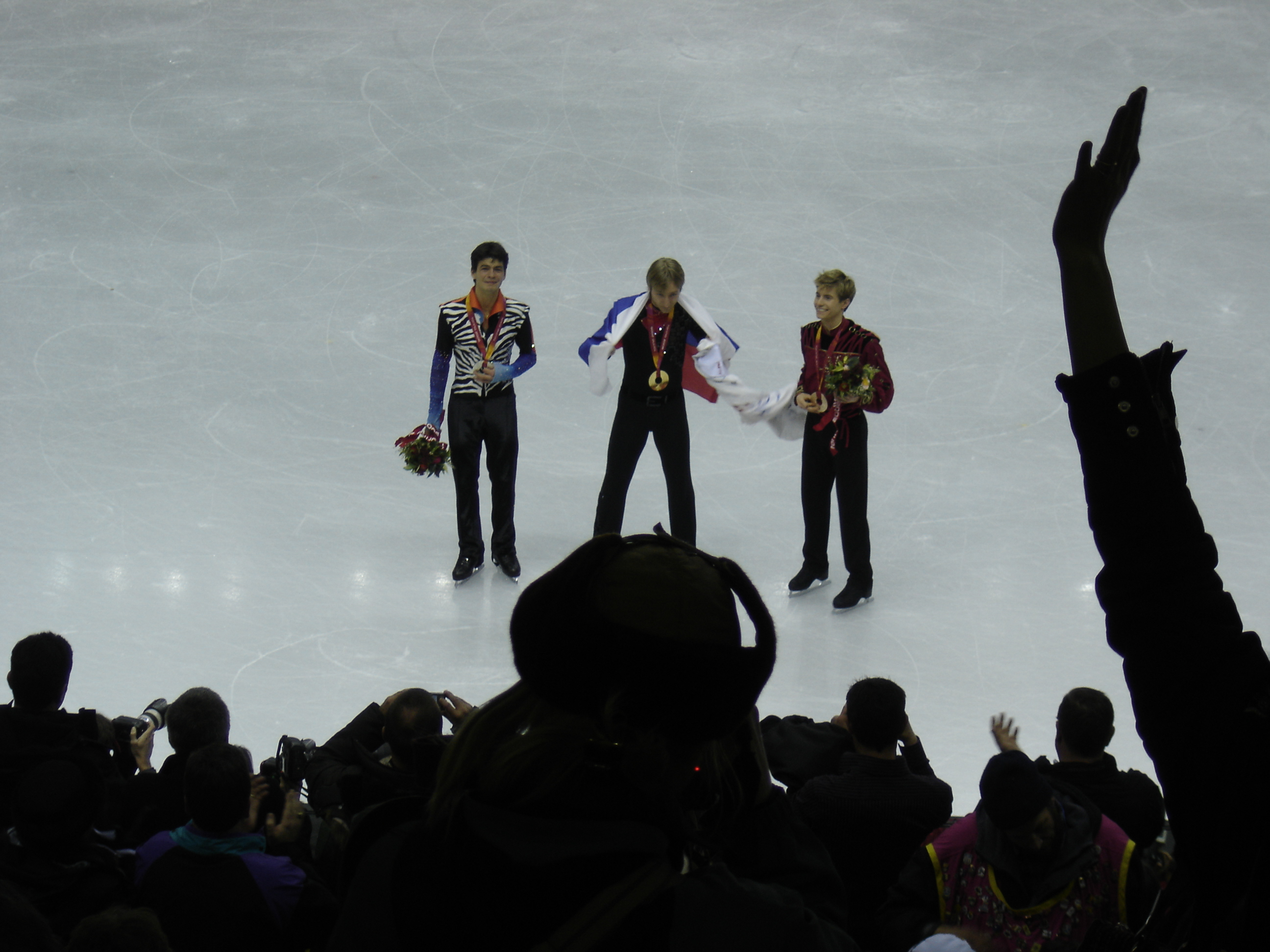 Picture of the medalists taken by myself after the medal ceremony in Torino Palavela.